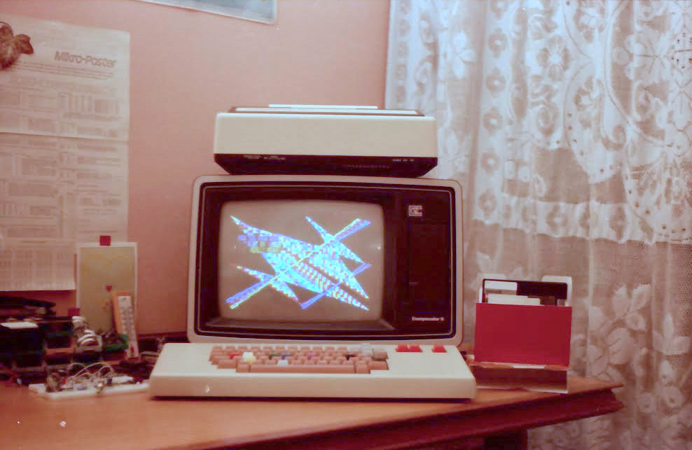 Compucolor II computer with Centronics 737 printer (Zagreb, 1980)